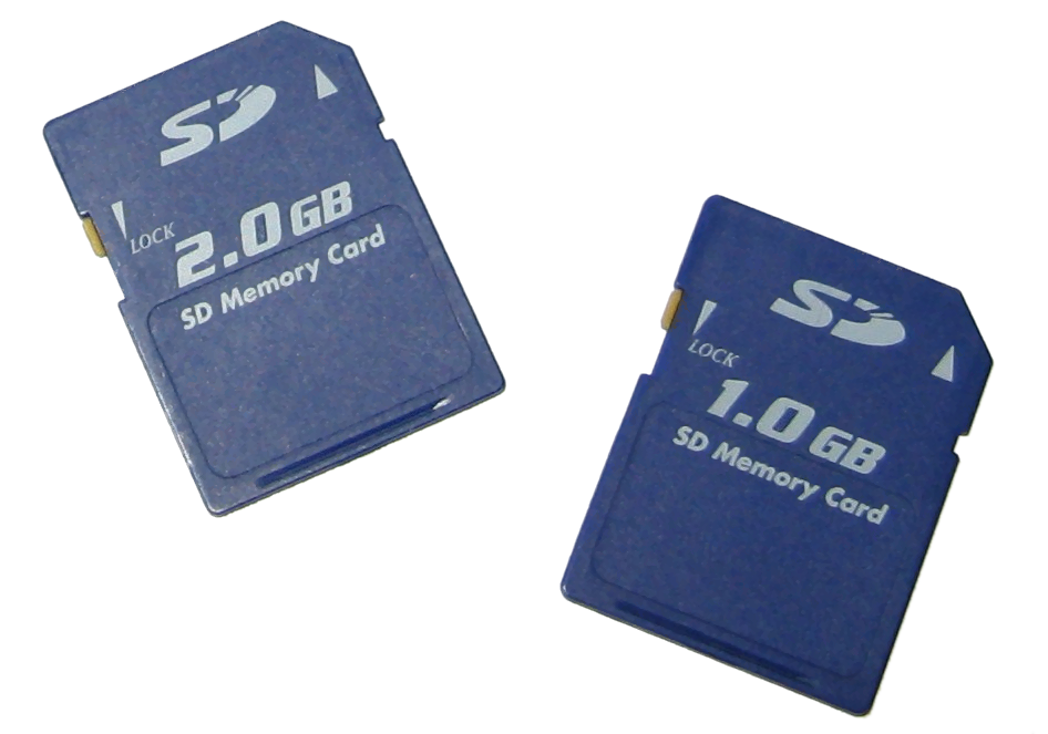 Two SD Cards, Left: 2 Gigabyte SD (Secure Digital) Memory Card, Model Number SD-M02G, Manufactured in Japan by Toshiba; Right: 1 Gigabyte SD (Secure Digital) Memory Card, Model Number SD-M01G, Manufactured in Taiwan by Toshiba.